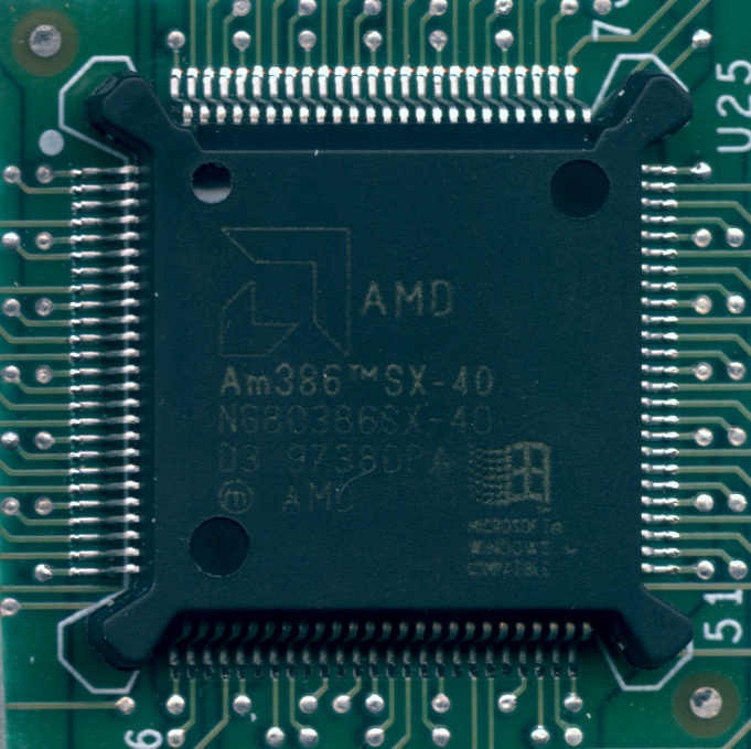 IC photo